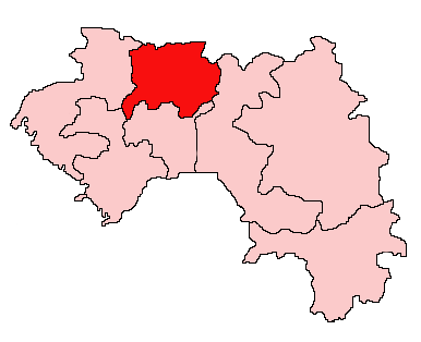 Map of Guinea showing Labé Region. Created using the GIMP